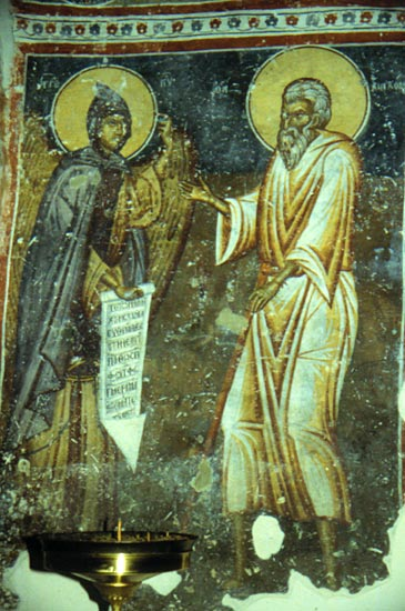 The phenomenon of an angel to Sacred Pahomiju (fresco).Church of a monastery Zrze (Macedonia).